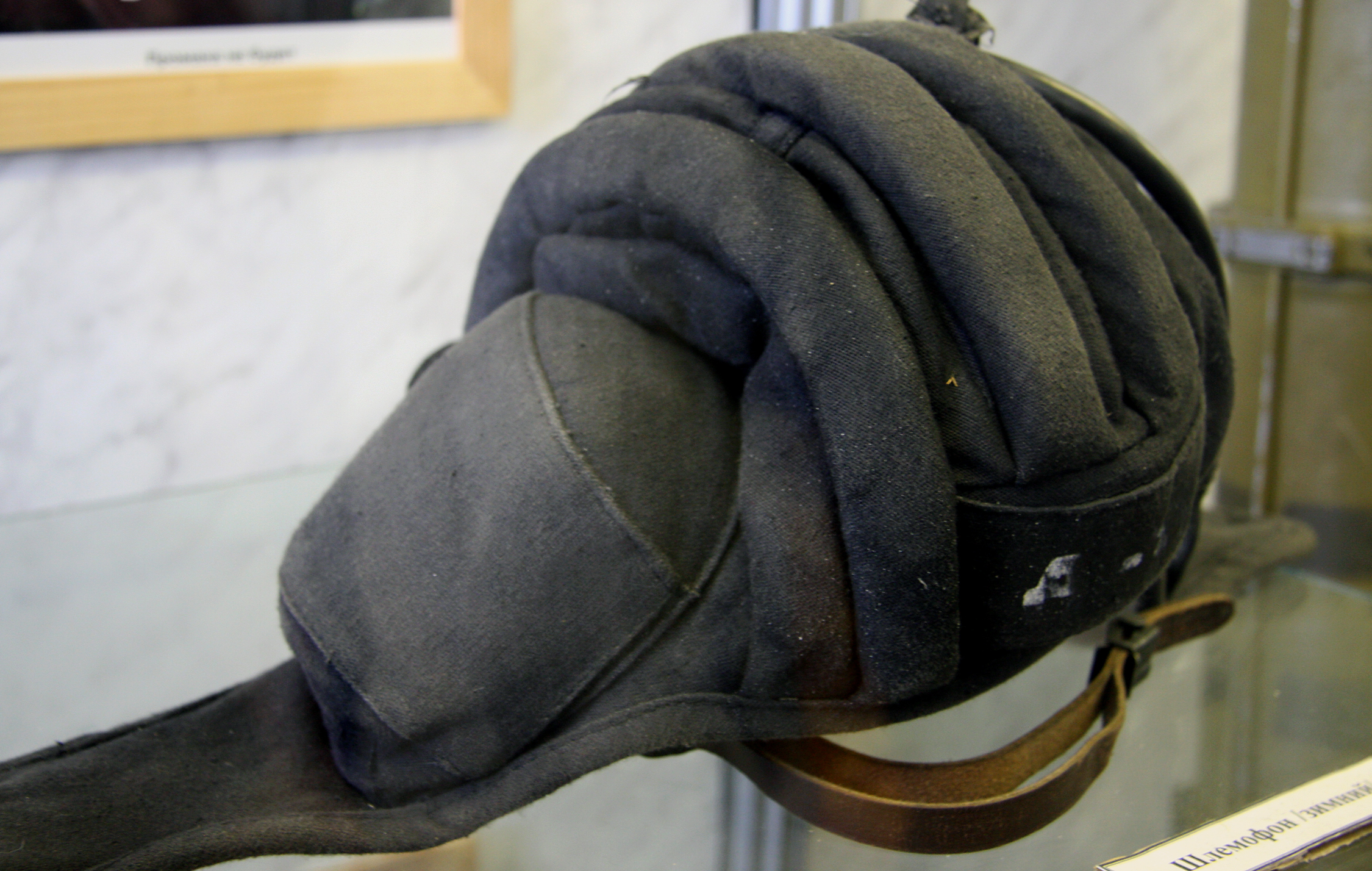 helmet with earphones